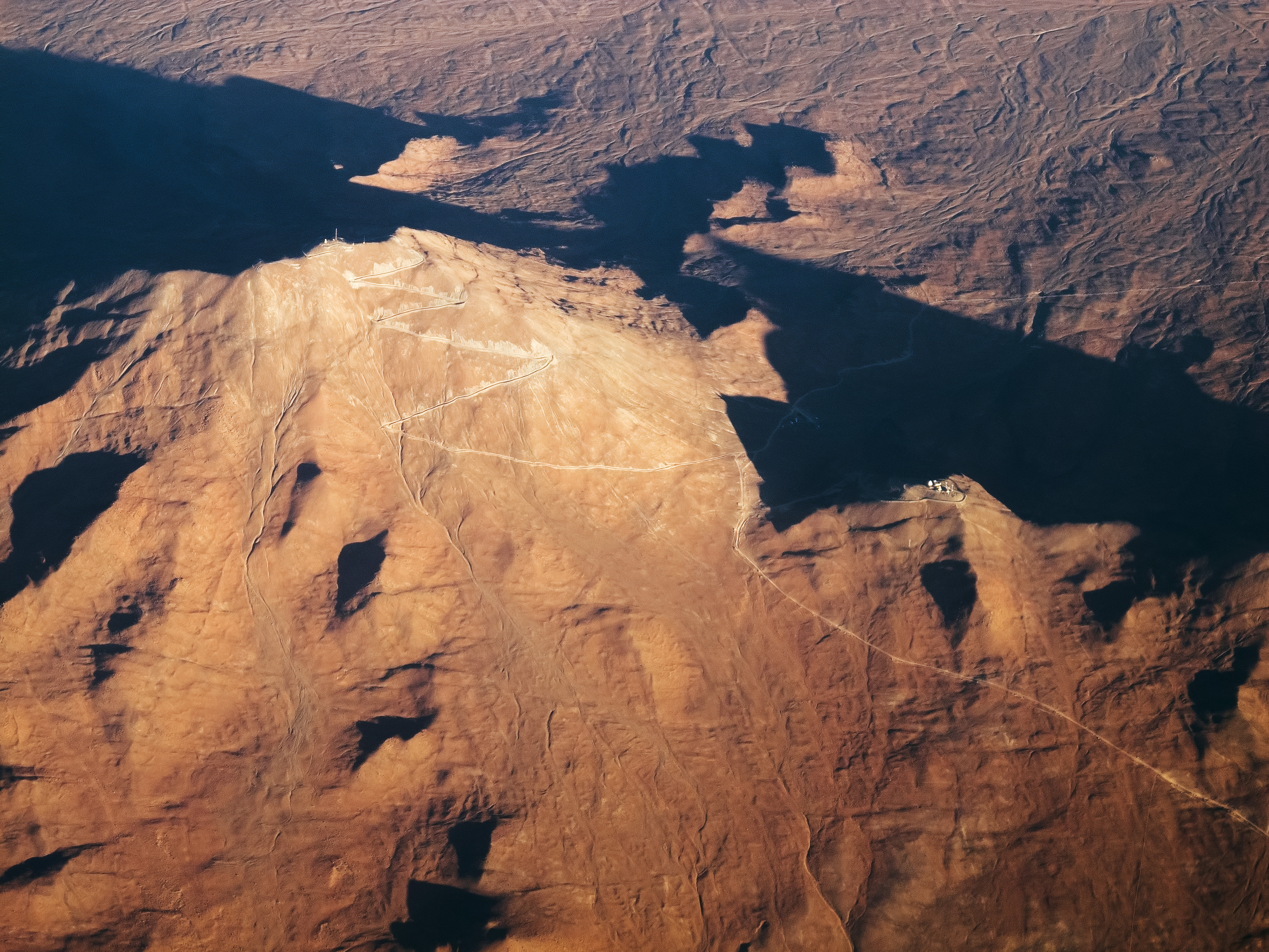 This spectacular aerial shot of Cerro Armazones, taken by ESO Photo Ambassador Gerhard Hüdepohl, represents that wonderful moment for a photographer: when everything lines up for the perfect shot. Hüdepohl is also an electronics engineer at the European Southern Observatory’s Very Large Telescope (VLT) on Cerro Paranal, the world’s most advanced visible-light astronomical observatory and ESO’s flagship facility. Hüdepohl captured this image while on a commercial flight from Antofagasta to Santiago. Shortly after taking off the plane took the ideal flight path for an aerial snap of Cerro Armazones — and Hüdepohl could not have asked for better conditions. Seizing the moment, he was able to capture this unusual perspective, high above the spectacular terrain. This image shows the Atacama Desert with amazing clarity, with the thin, zigzag path standing out sharply from the dusty terrain. This dirt road can be seen slicing its way up to the summit of Cerro Armazones. The site is currently occupied by a selection of surveying equipment, but it will soon become the home of the European Extremely Large Telescope (E-ELT), a 40-metre telescope that will not only answer existing questions in astronomy, but also raise — and hopefully answer — entirely new questions altogether.